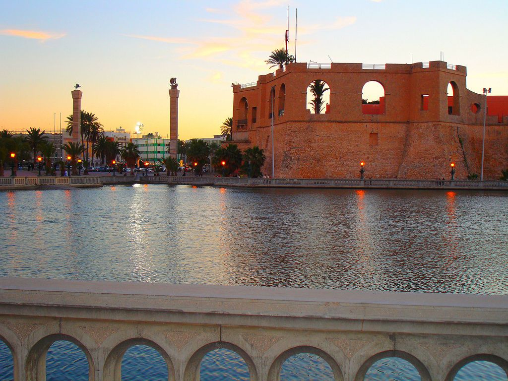 The Red Saraya or the Citadel of Tripoli, one of the most important landmarks of the city of Tripoli in Libya, was named the Red Serail because some of its parts were painted in red. It overlooks the streets of Omar Al Mokhtar and Al Fateh.